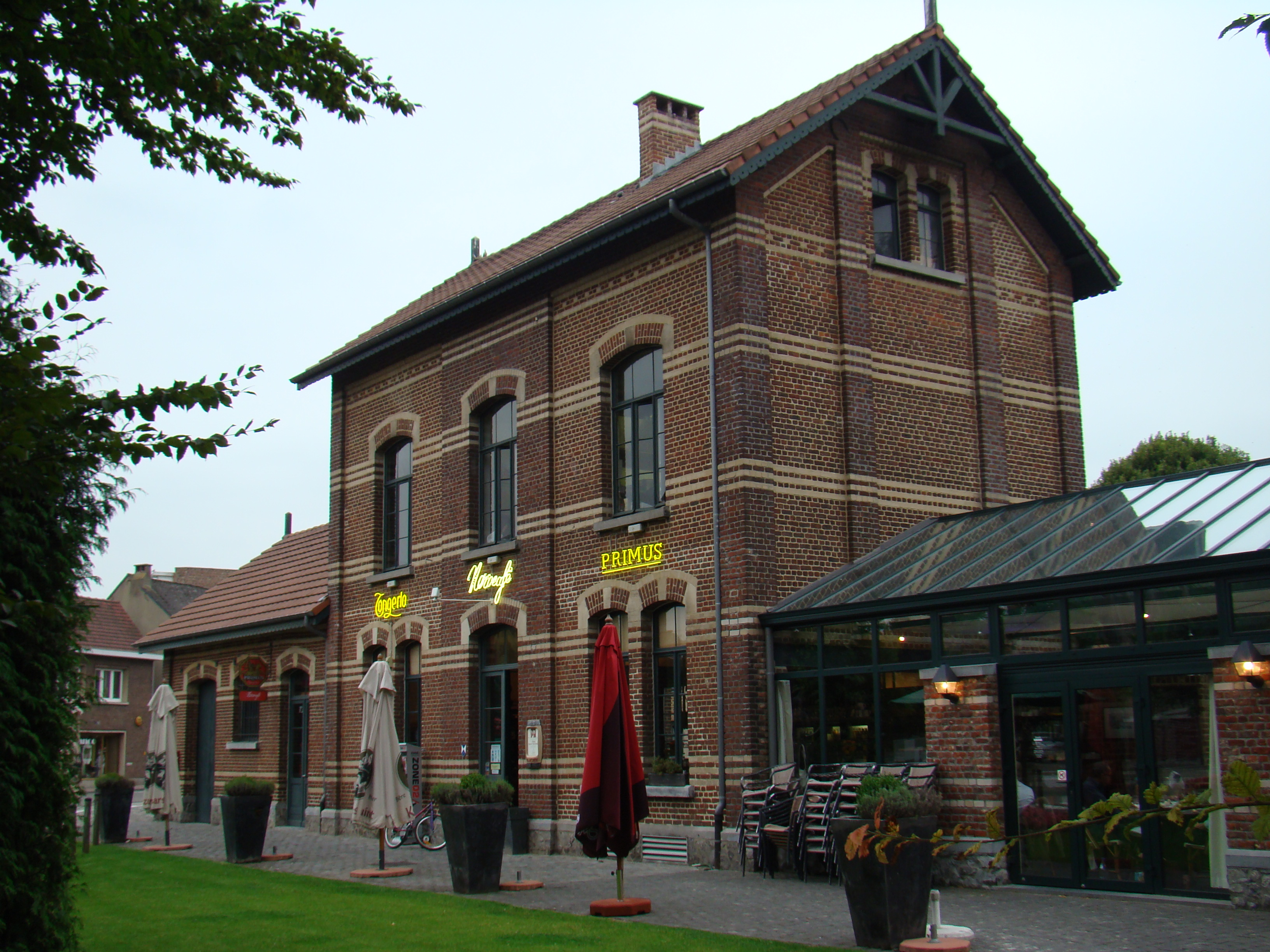 Hoeilaart (Flemish Brabant, Belgium)